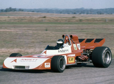 John McCormack in the Elfin MR5 at Surfers Paradise International Raceway for the Glynn Scott Memorial Trophy, 27th August 1972, photo by Graham Ruckert.